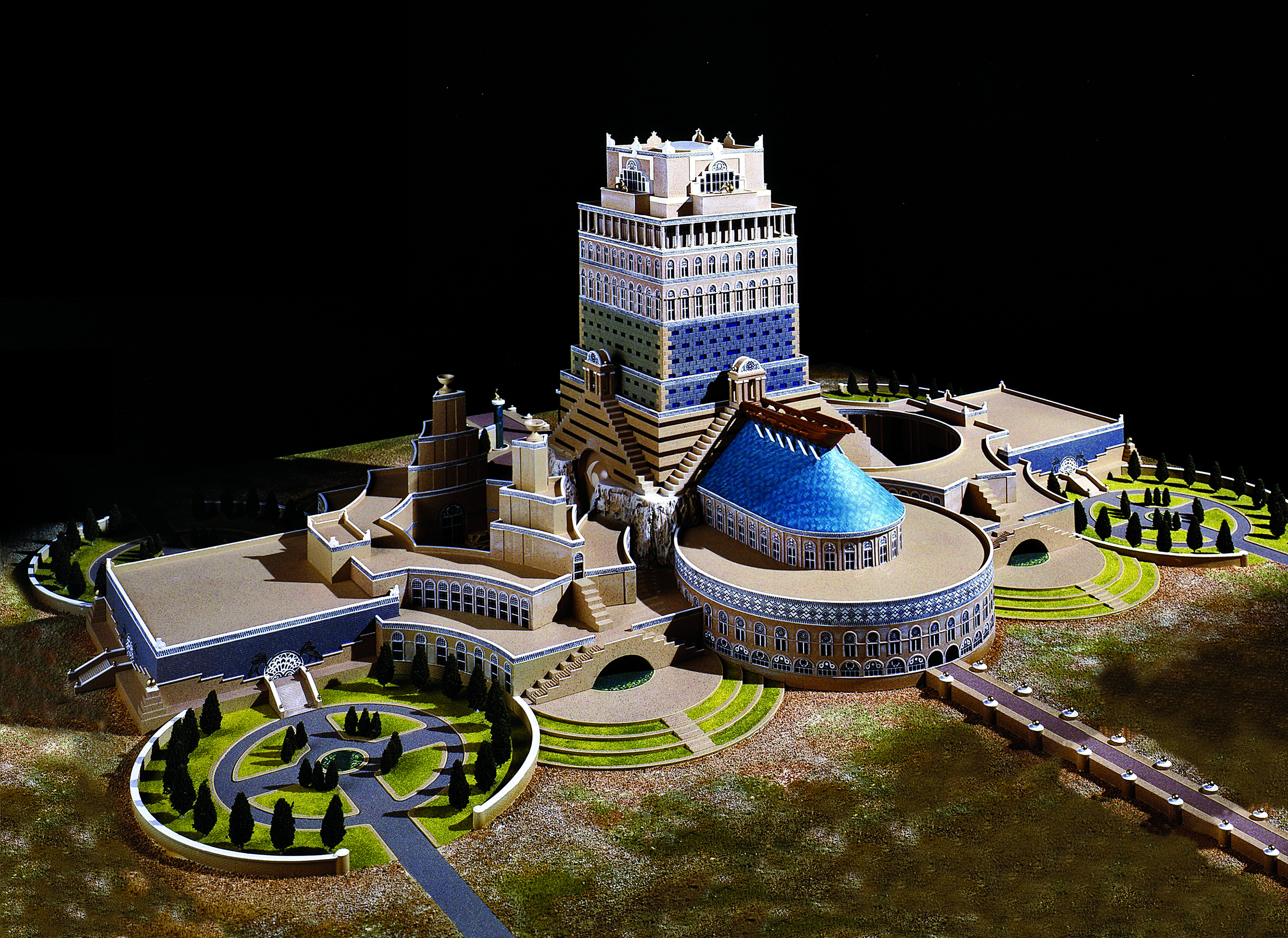 Qasir Ghumdan Hotel, Yemen, designed by Dr. Basil Al Bayati